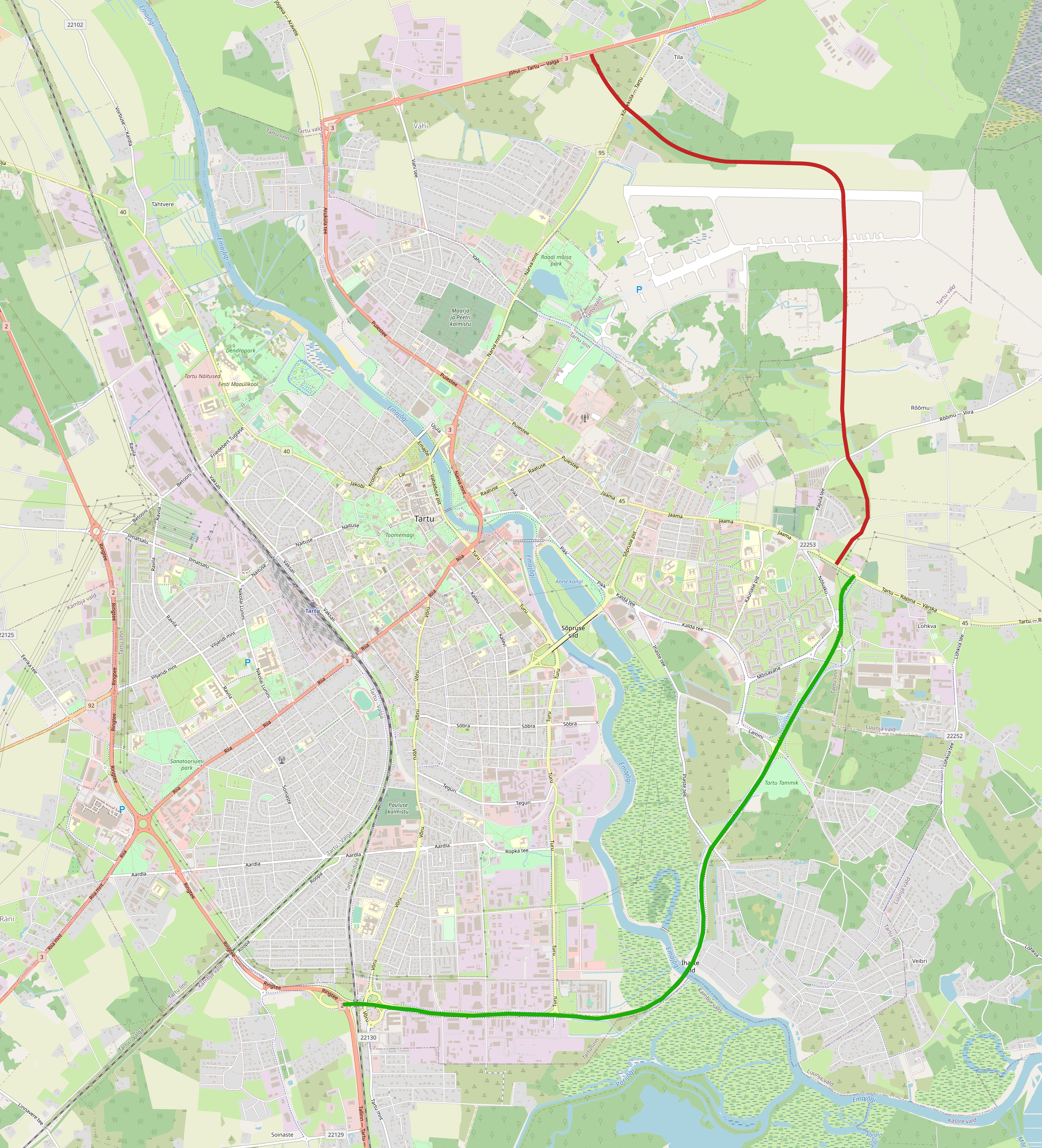 Idaringtee route